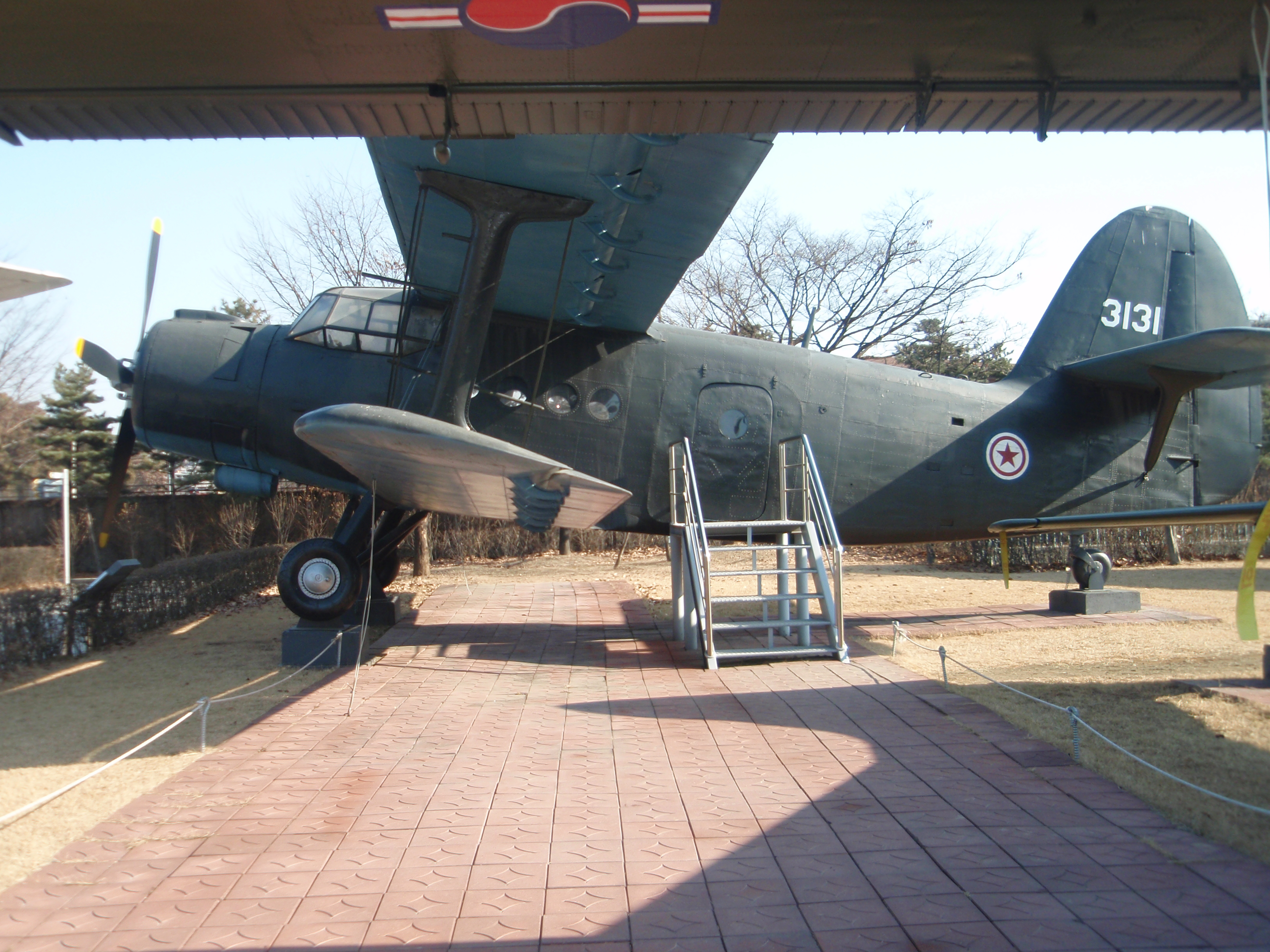 An-2, cargo, DPRK